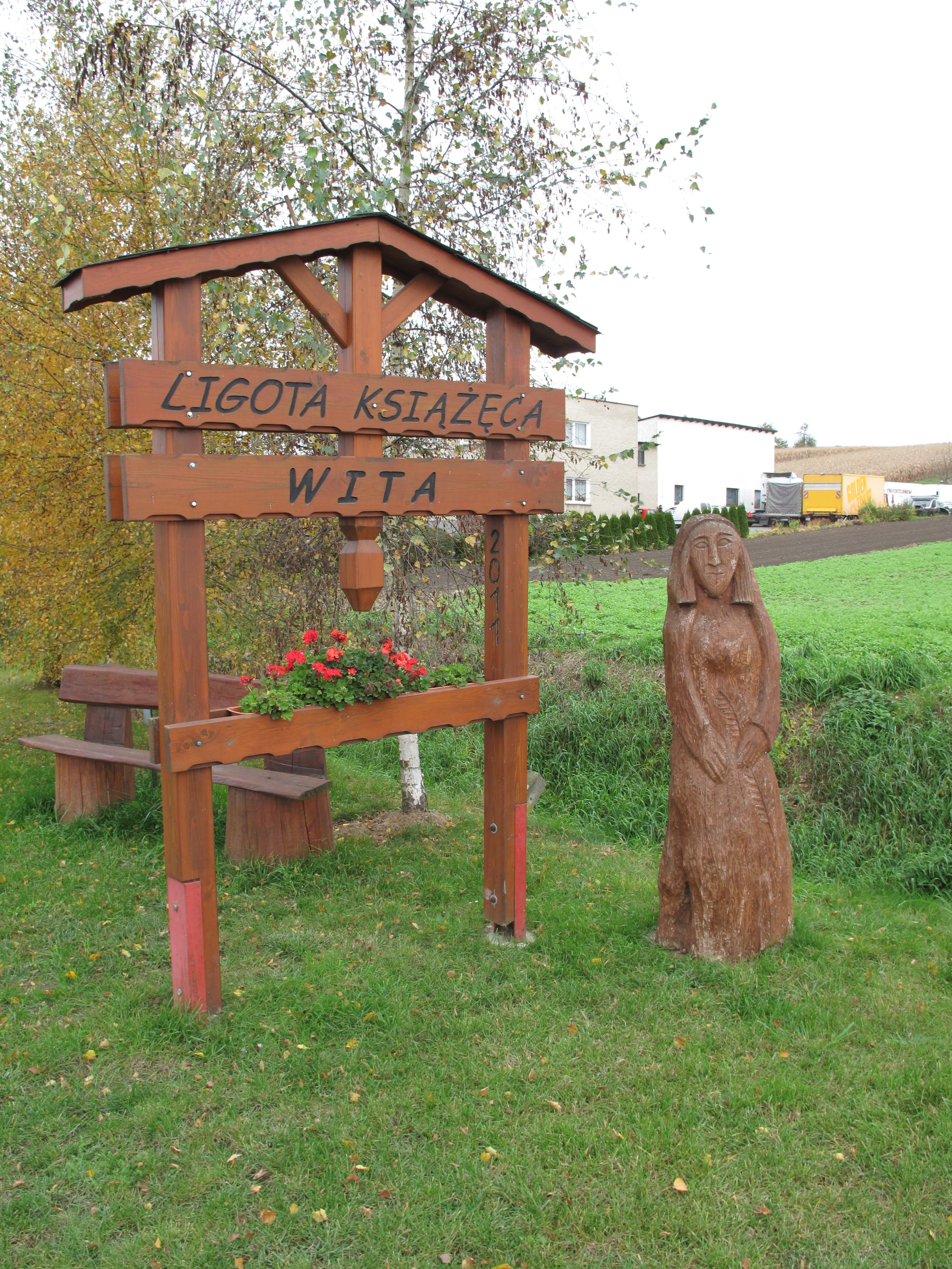 Ligota Książęca. Racibórz County, Poland.